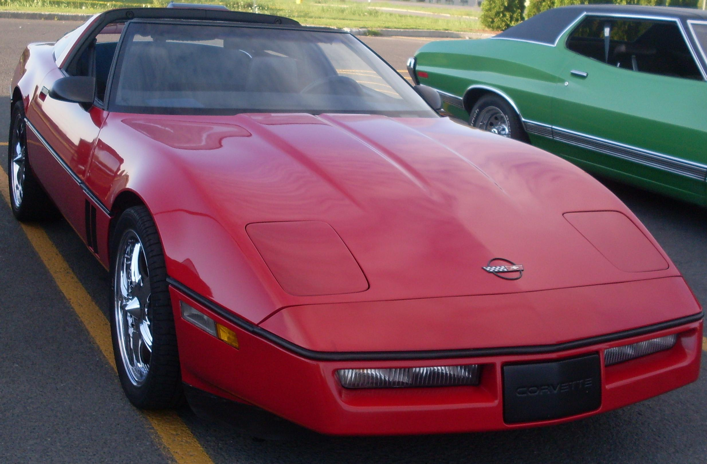 Chevrolet Corvette photographed in St. Constant, Quebec, Canada at Auto classique St-Constant 2013.